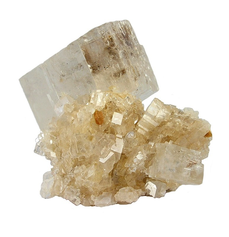 Florencite, Magnesite Locality: Serra das Éguas, Brumado (Bom Jesus dos Meiras), Bahia, Northeast Region, Brazil (Locality at ) Frankly, I think this specimen is worth it just for the huge, sharp, complete magnesite ! But, to me the really interesting feature is the unusually large and fat 6mm florencite. This is an extremely rare species for the locality, and one of the largest such crystals I have seen 6.6 x 6.5 x 4.4 cm